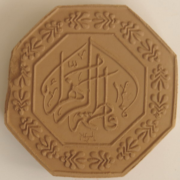 a Turbah or Mohr from Qom, Iran. It shows a prayer to Fatimah, daughter of the Prophet of Islam, Muhammad, and mother of the third Shi'a Imam, Husayn ibn Ali. It reads: "Ya Fatima al-Zahra" which translates as: "Oh, Fatima, the Splendid One"